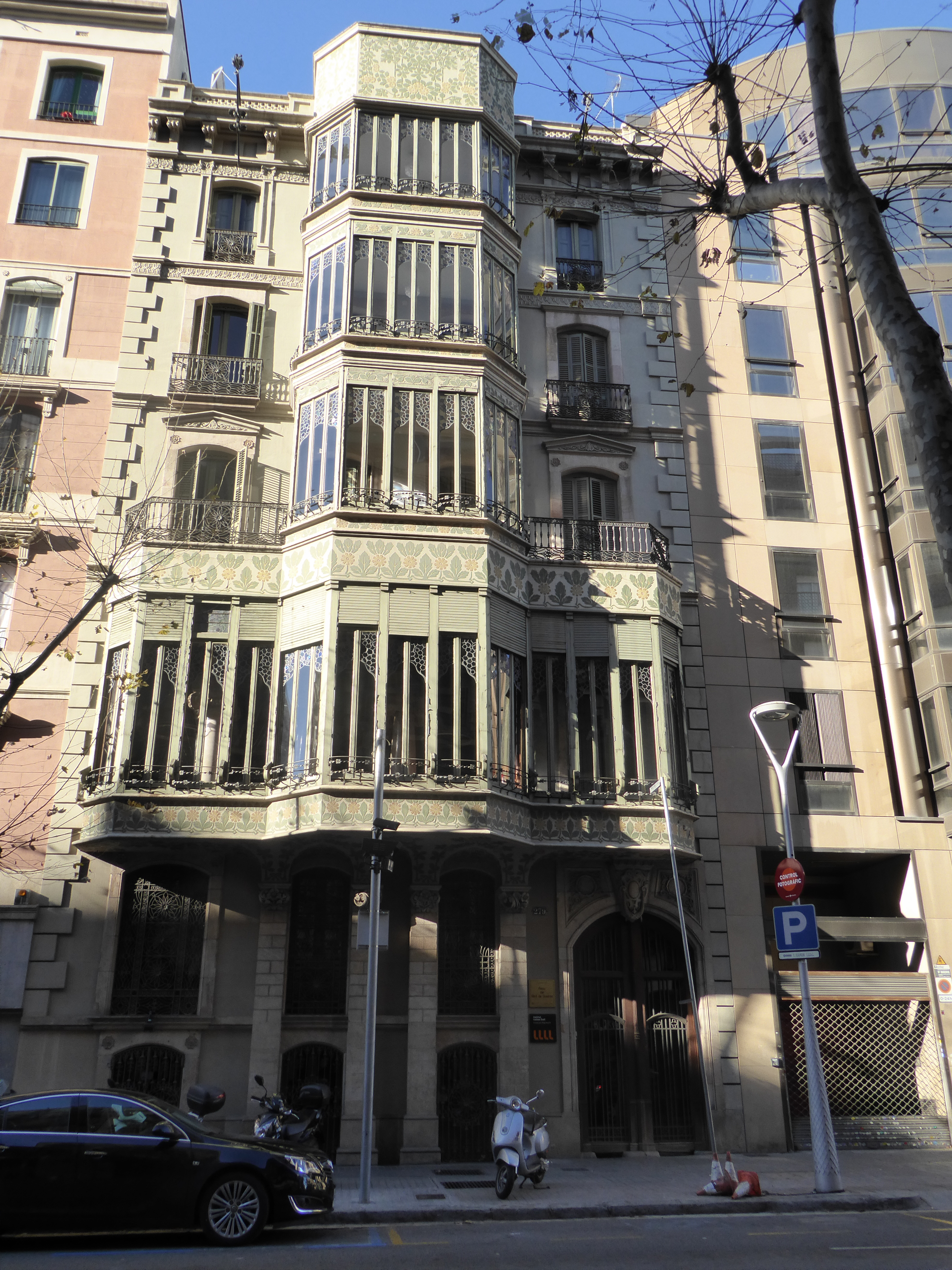 Rear facade of Palau del Baró de Quadras, Carrer del Rosselló, Eixample, Barcelona, Catalonia, December 2014